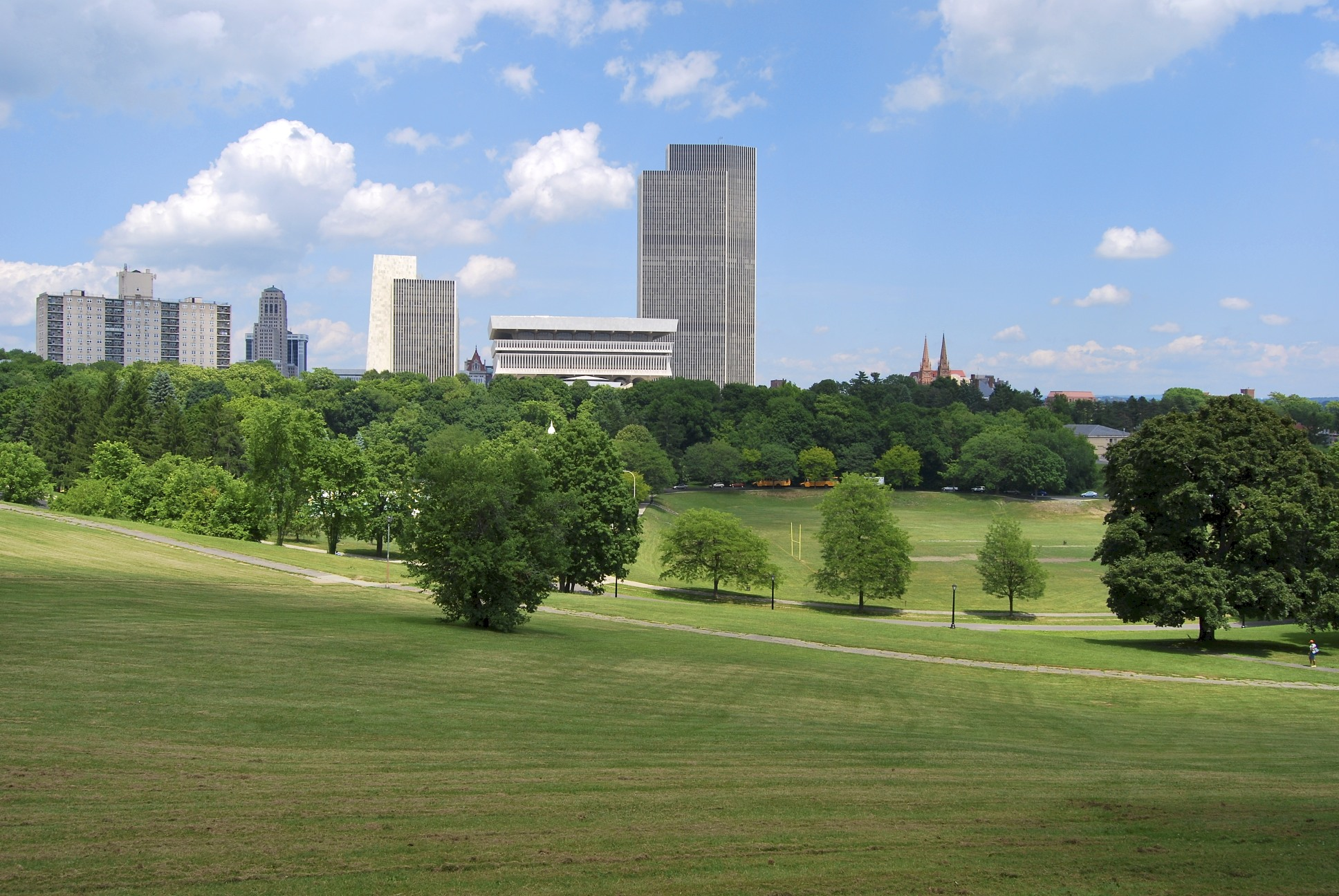 Lincoln Park, with the Empire State Plaza in the background, in Albany, New York, United States